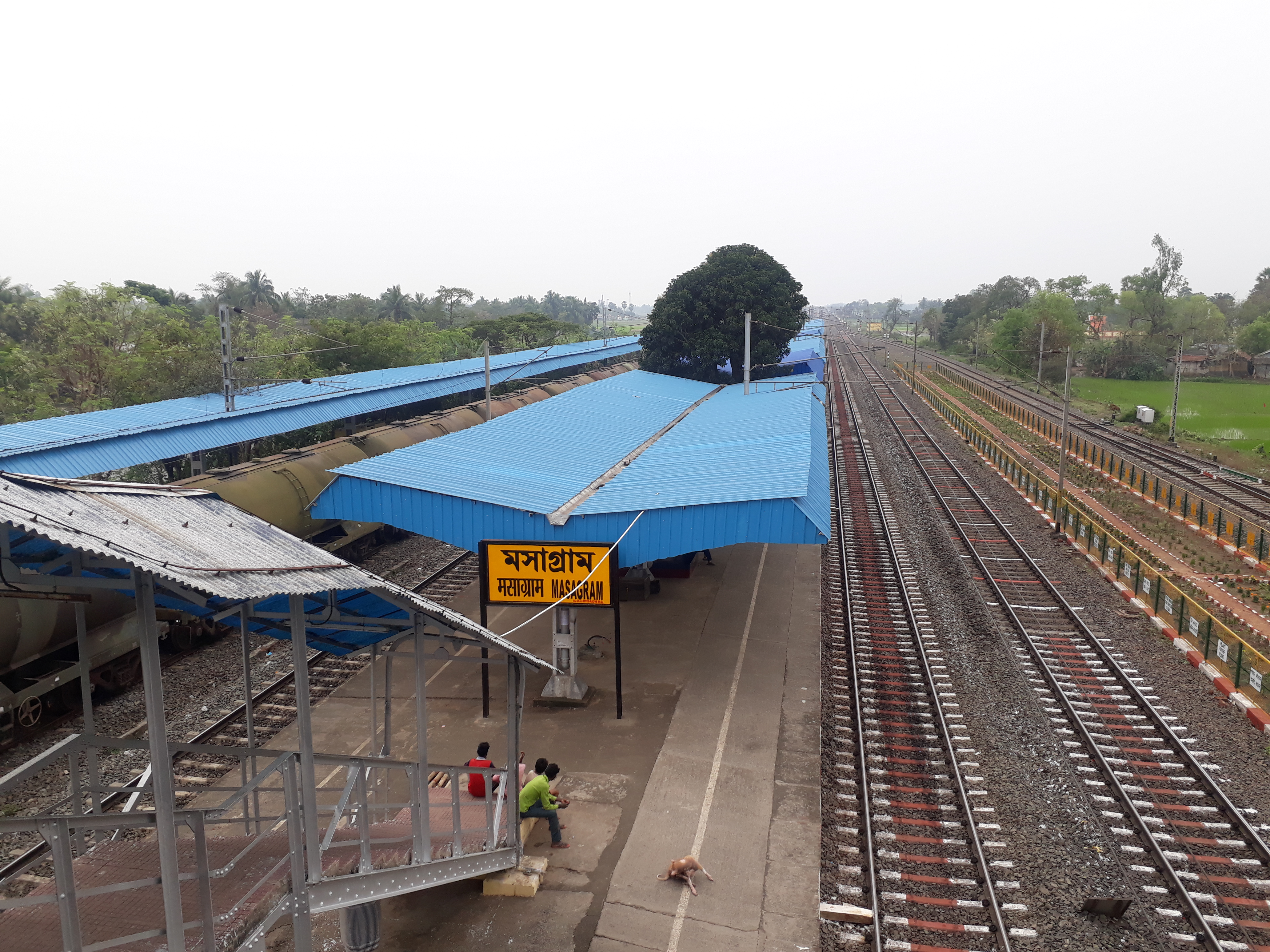 Masagram Junction railway station on Howrah Bardhaman cord line in Purba Bardhaman distrct